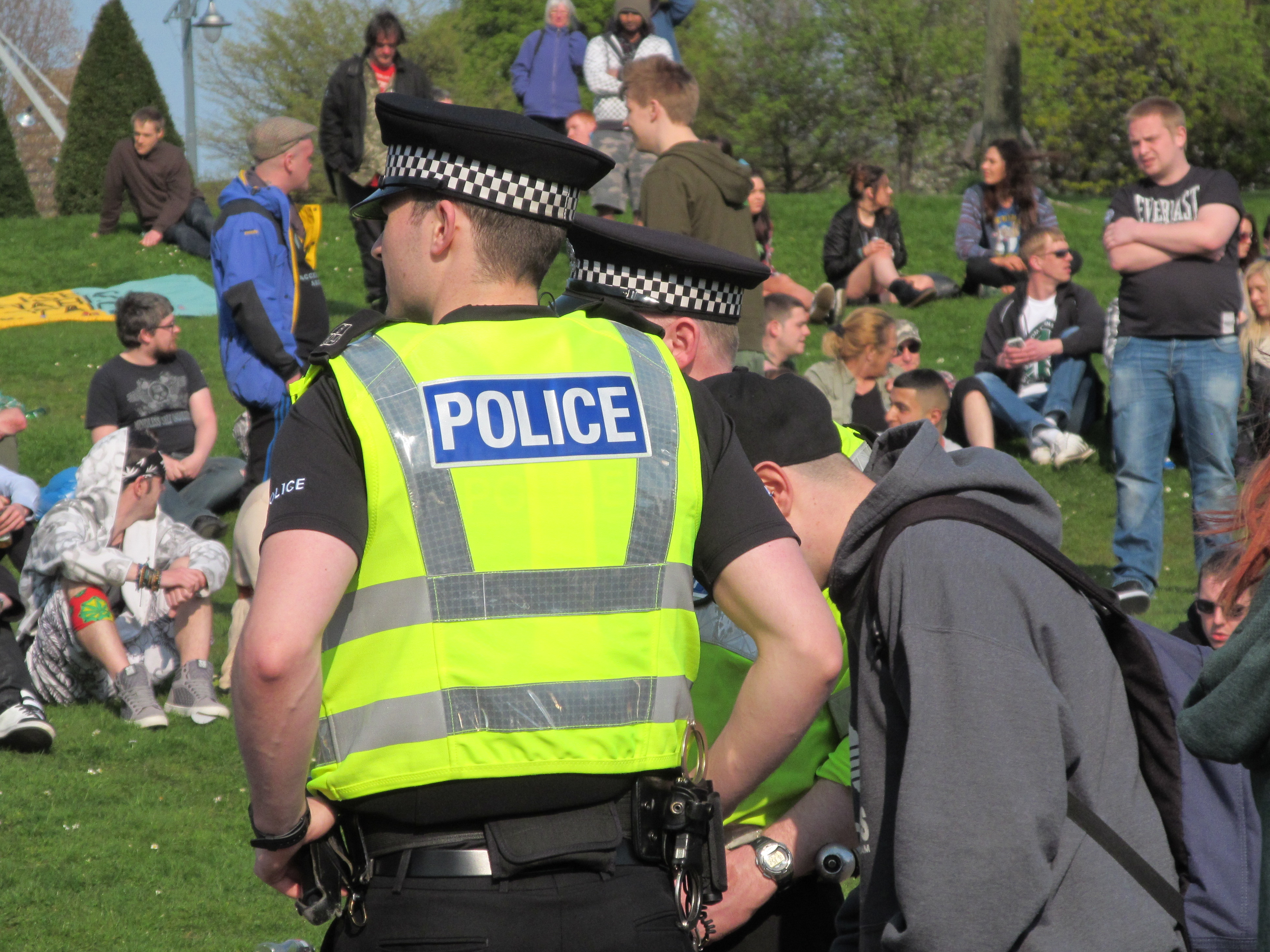 2014 Glasgow Green 420 event